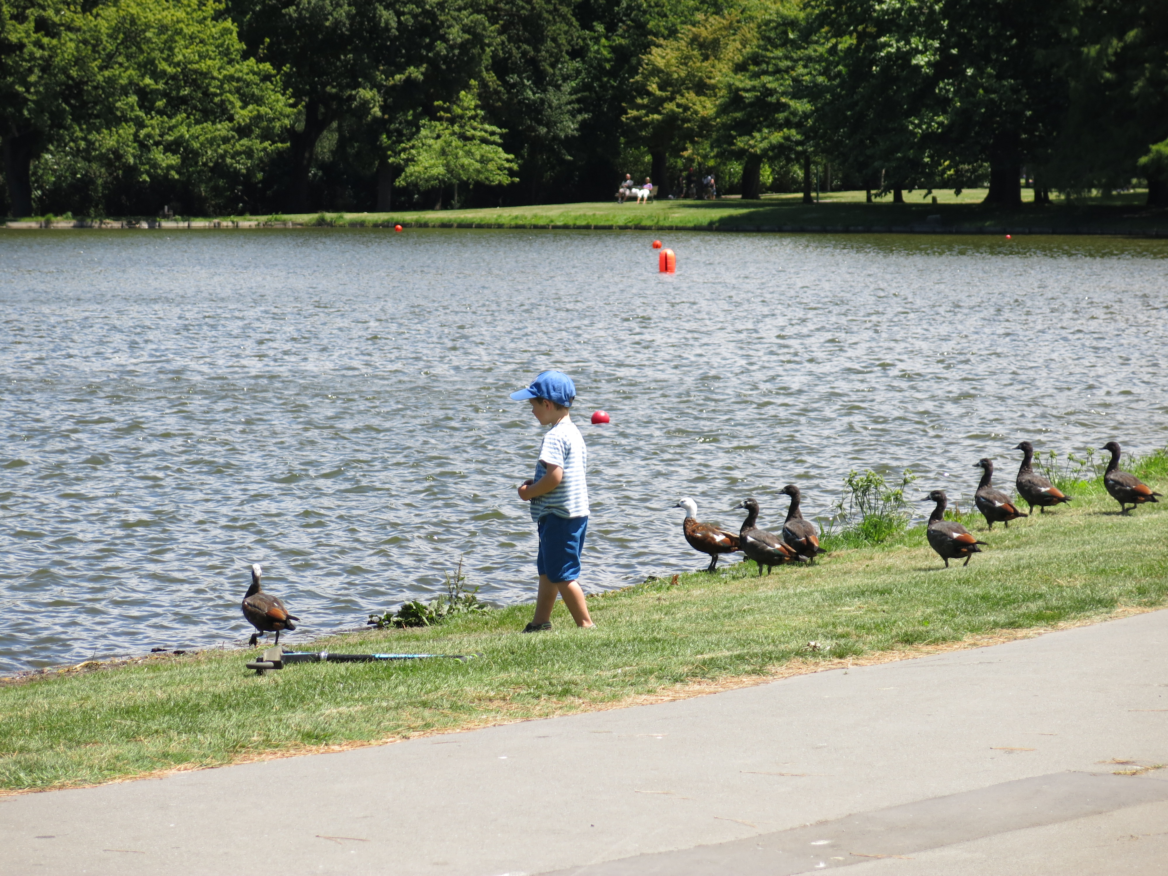 An unidentified location in New Zealand showing Paradise Shelducks and a young child next to a waterbody.